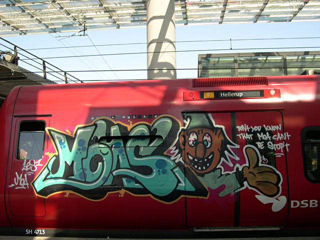 MOAS flying panel, graffiti, commuter, copenhagen, denmark